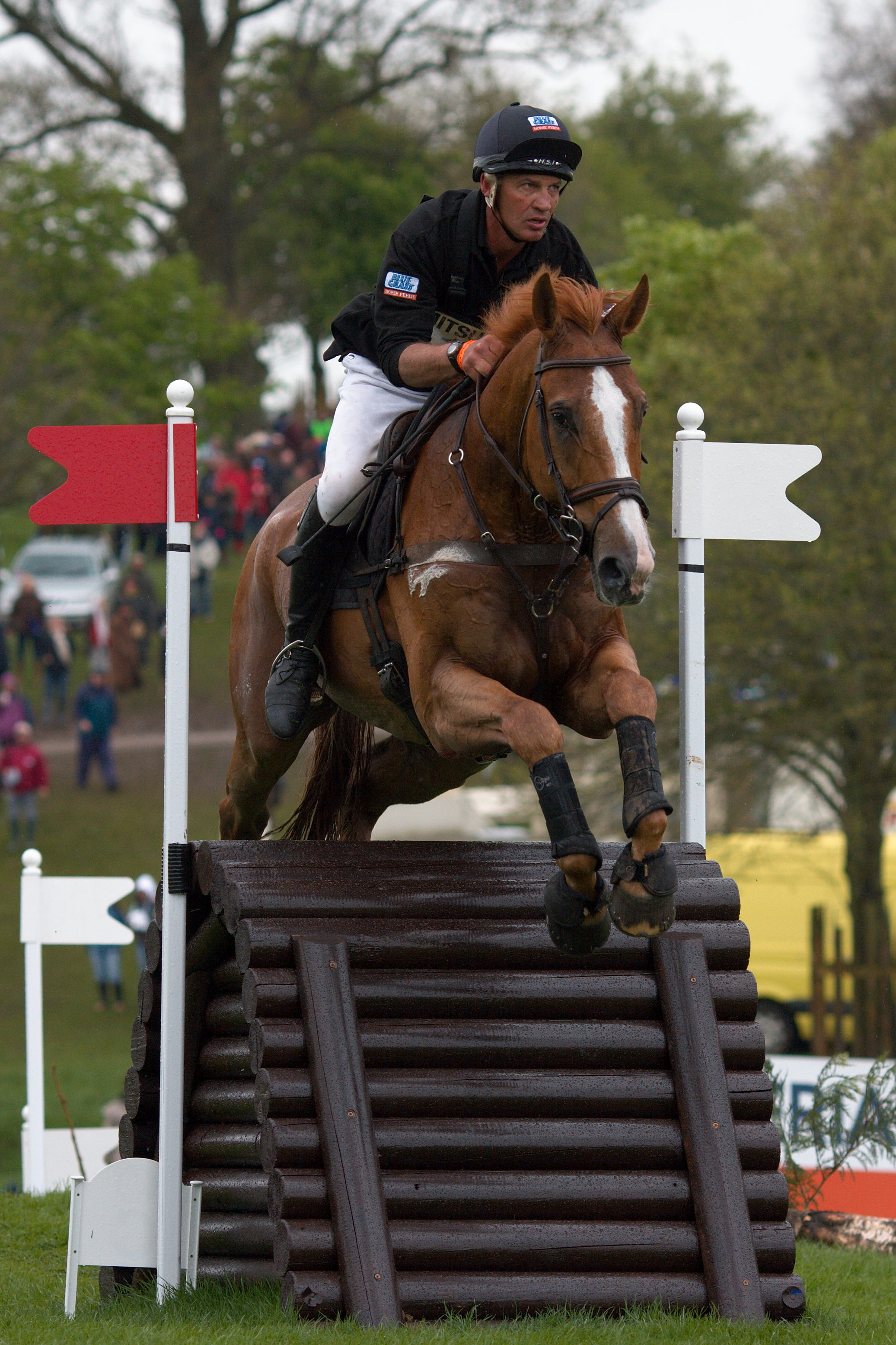 Andrew Nicholson and Nereo at the Staircase during the cross-country phase of Badminton Horse Trials 2010.